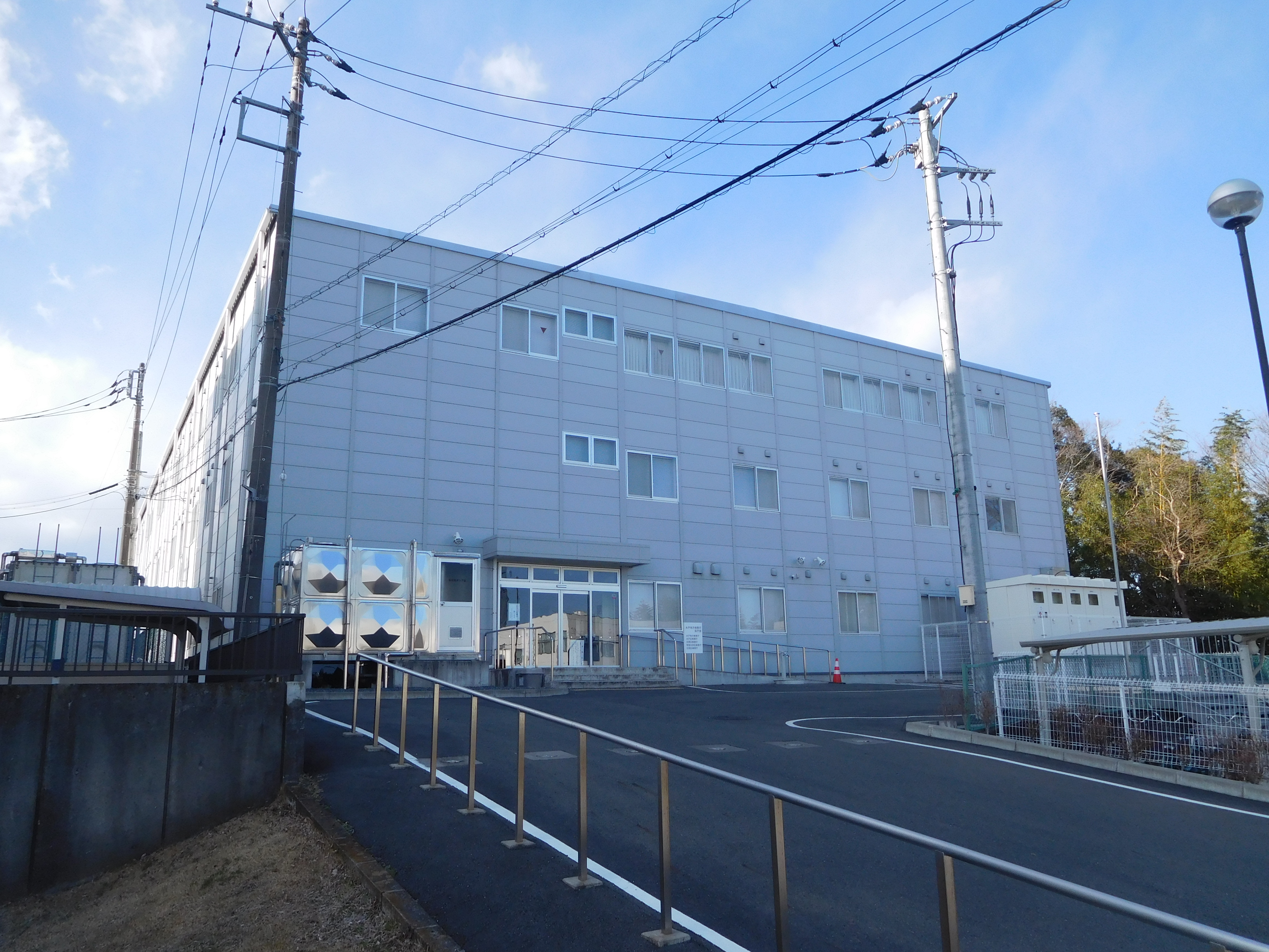 This is the temporary building of Mito District Public Prosecutor's Office in Mito, Ibaraki, Japan.